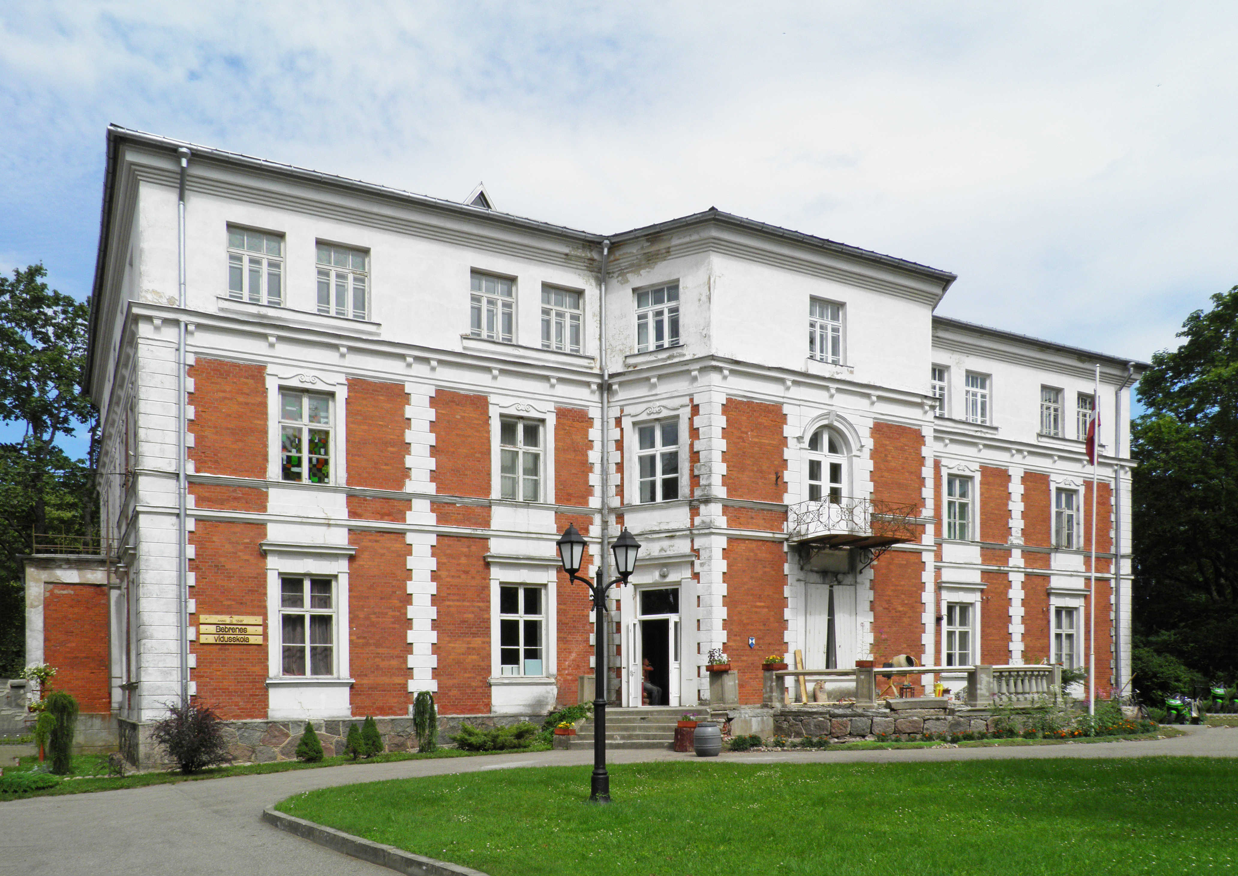 manor